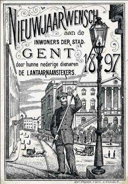 Lantaarnaanstekers,_Ghent,_Belgium.jpg